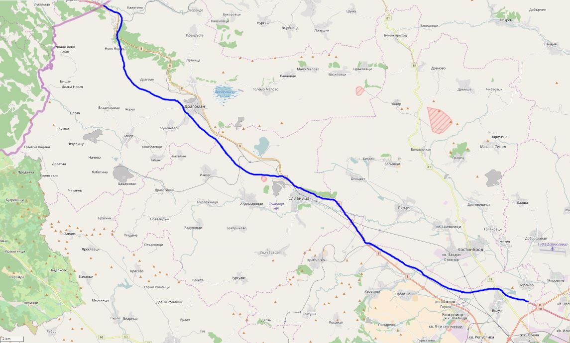 Proposed route of Kalotina Motorway in Bulgaria This map may be incomplete, and may contain errors. Don't rely solely on it for navigation.